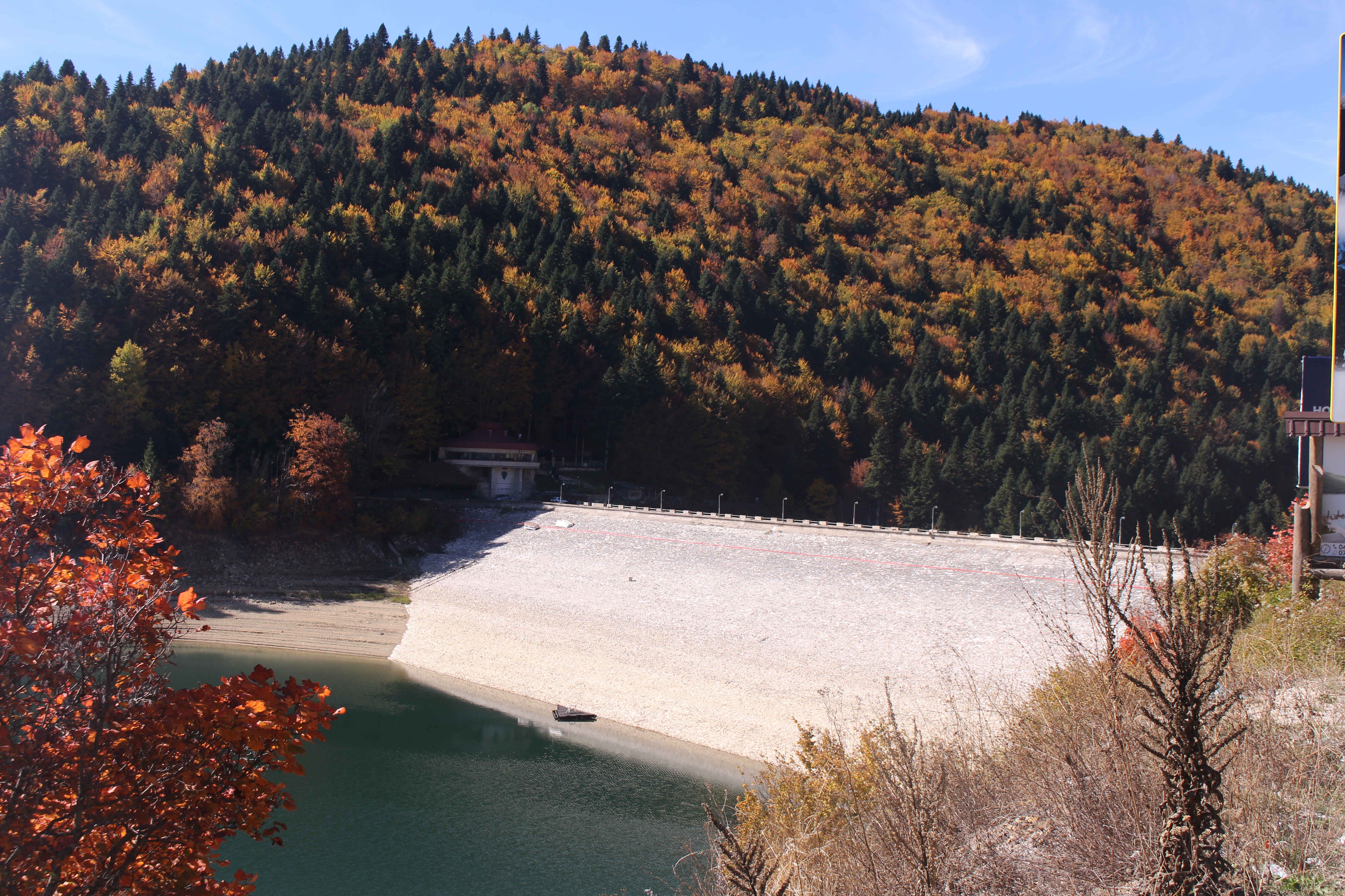 Брана Маврово( ХЕЦ Маврово)